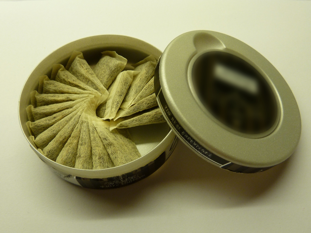 Snus box with brand names obscured